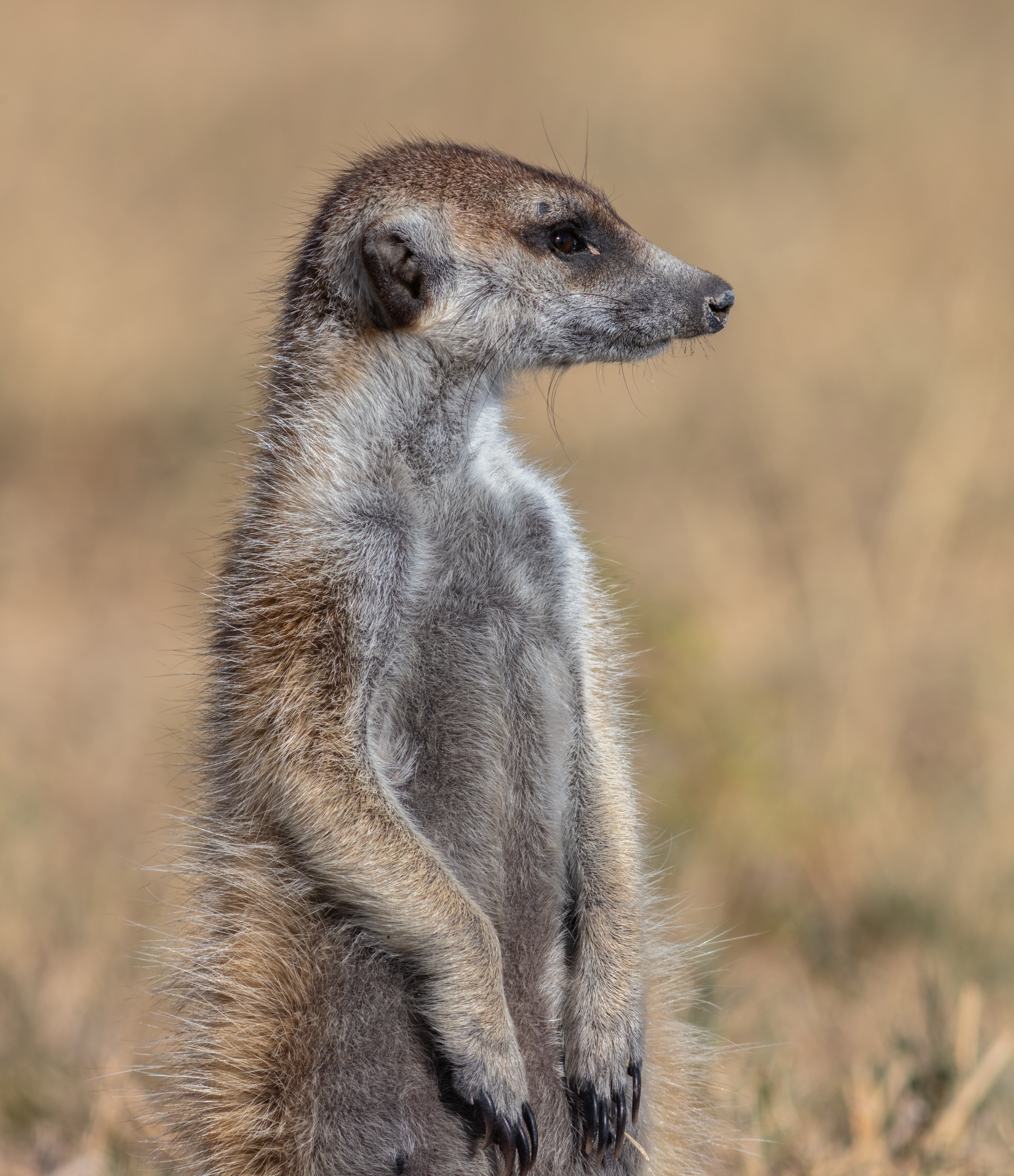 Meerkat (Suricata suricatta), Makgadikgadi Pans National Park, Botswana